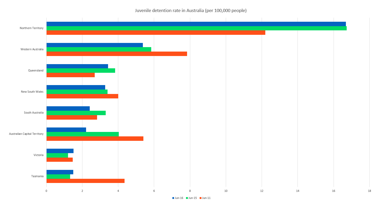 A graph depicting the juvenile detention rate in Australia across the six states and two territories, with data from June 2011, June 2015, and June 2016.